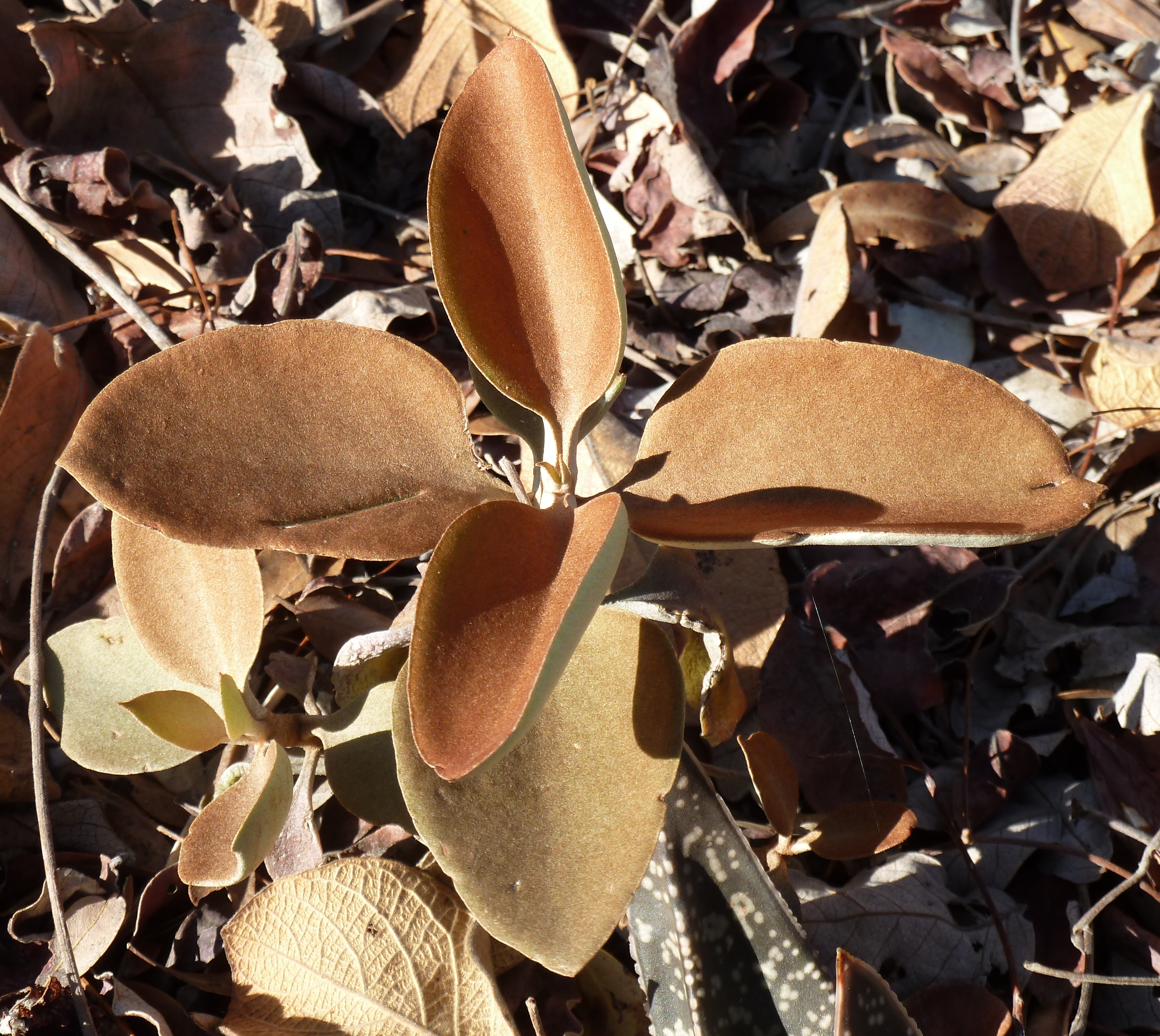 Copper Spoons in a rockery in the Waterberg, South Africa